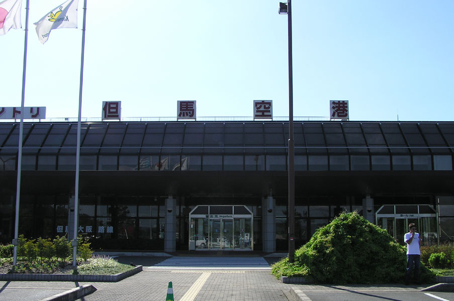 Tajima Airport by Nukebuster at September 2006